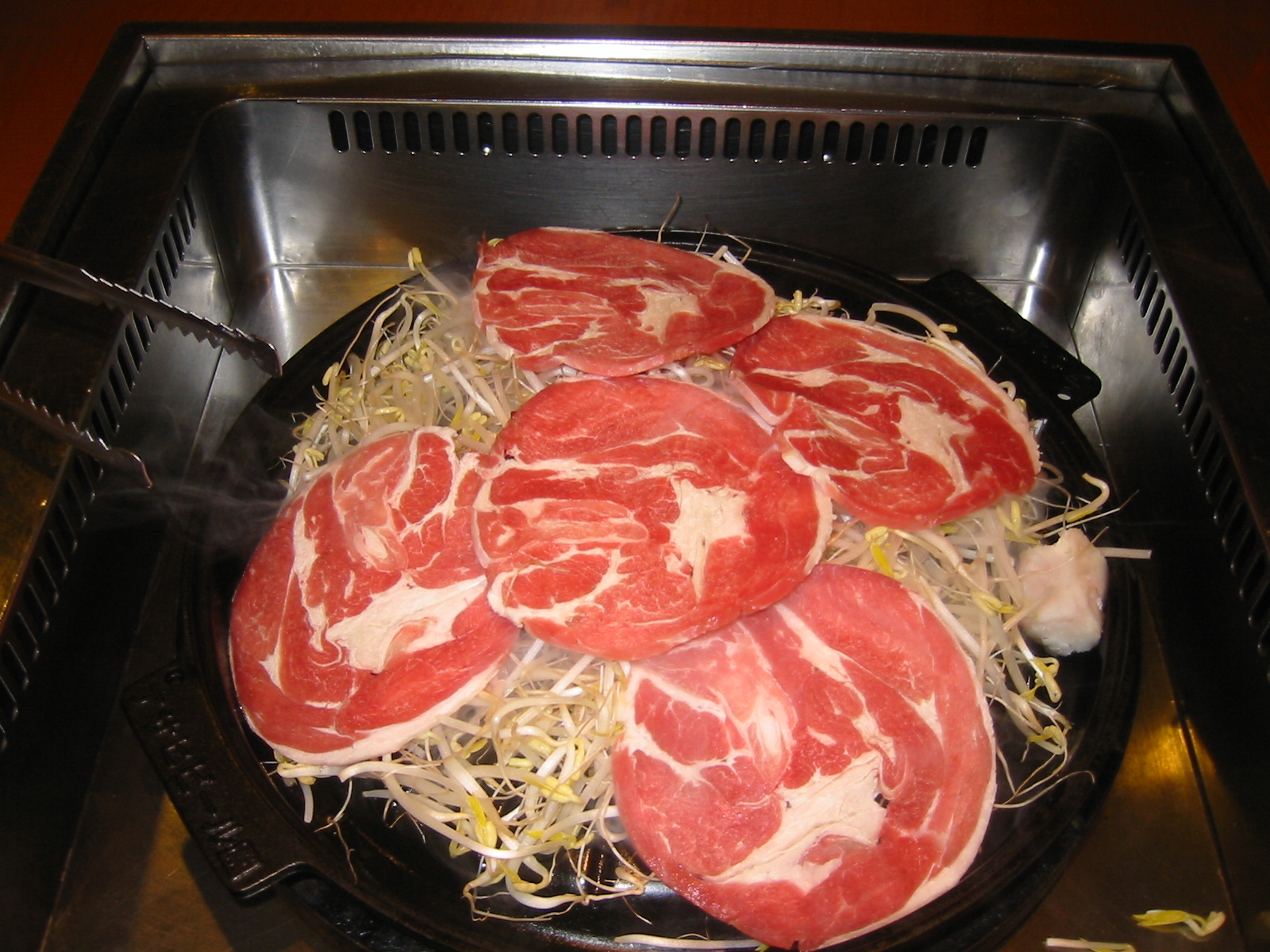 At the Asahi Beer Community Hall in Fukuoka,[1] Japan.